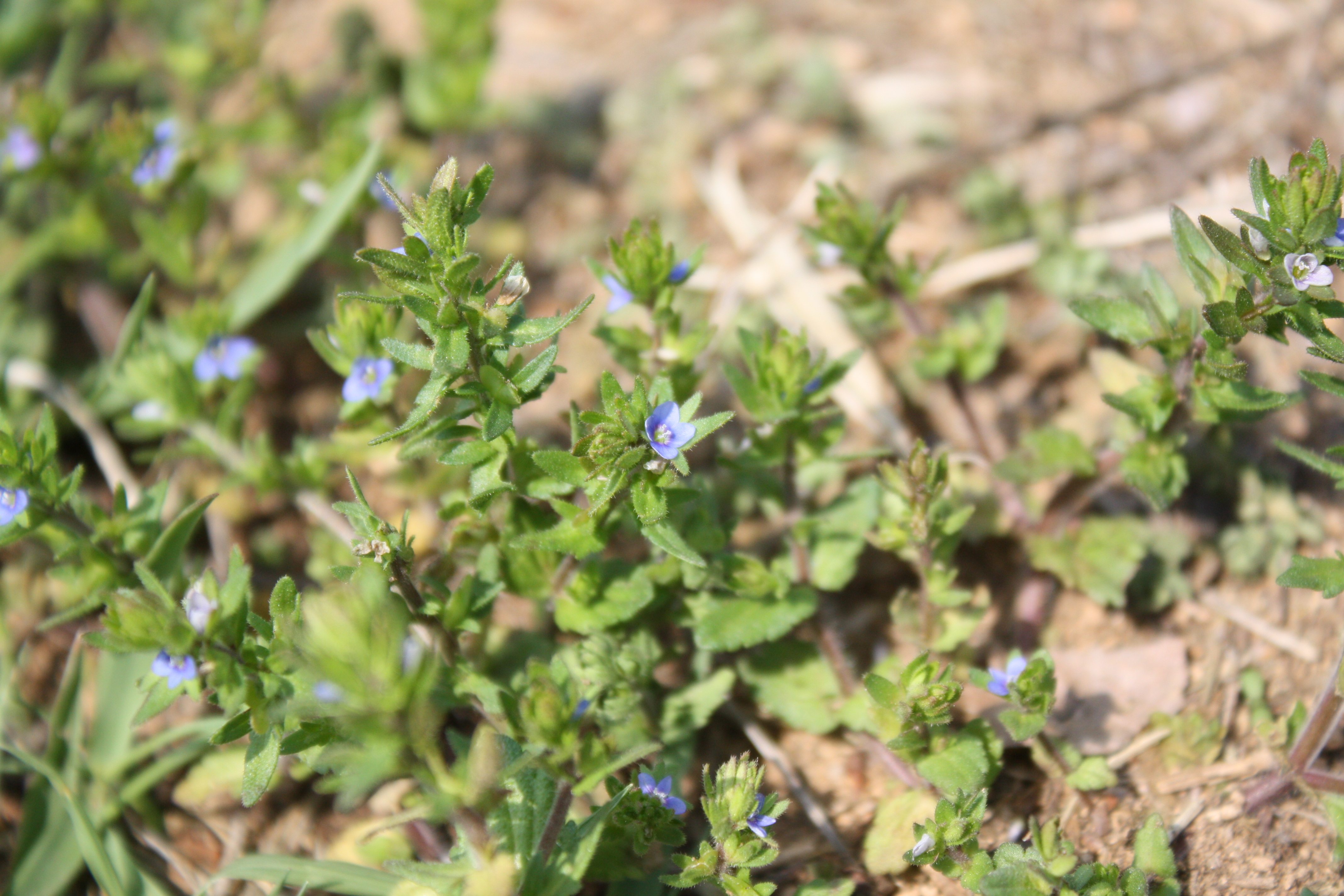 Veronica arvensis